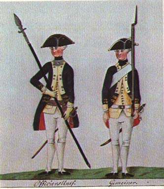 Infanterie Regiment von Donop officer and private A.D. 1783